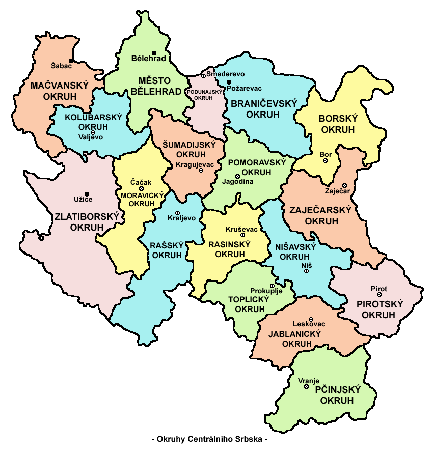 Map of districts in Central Serbia - Czech language version.